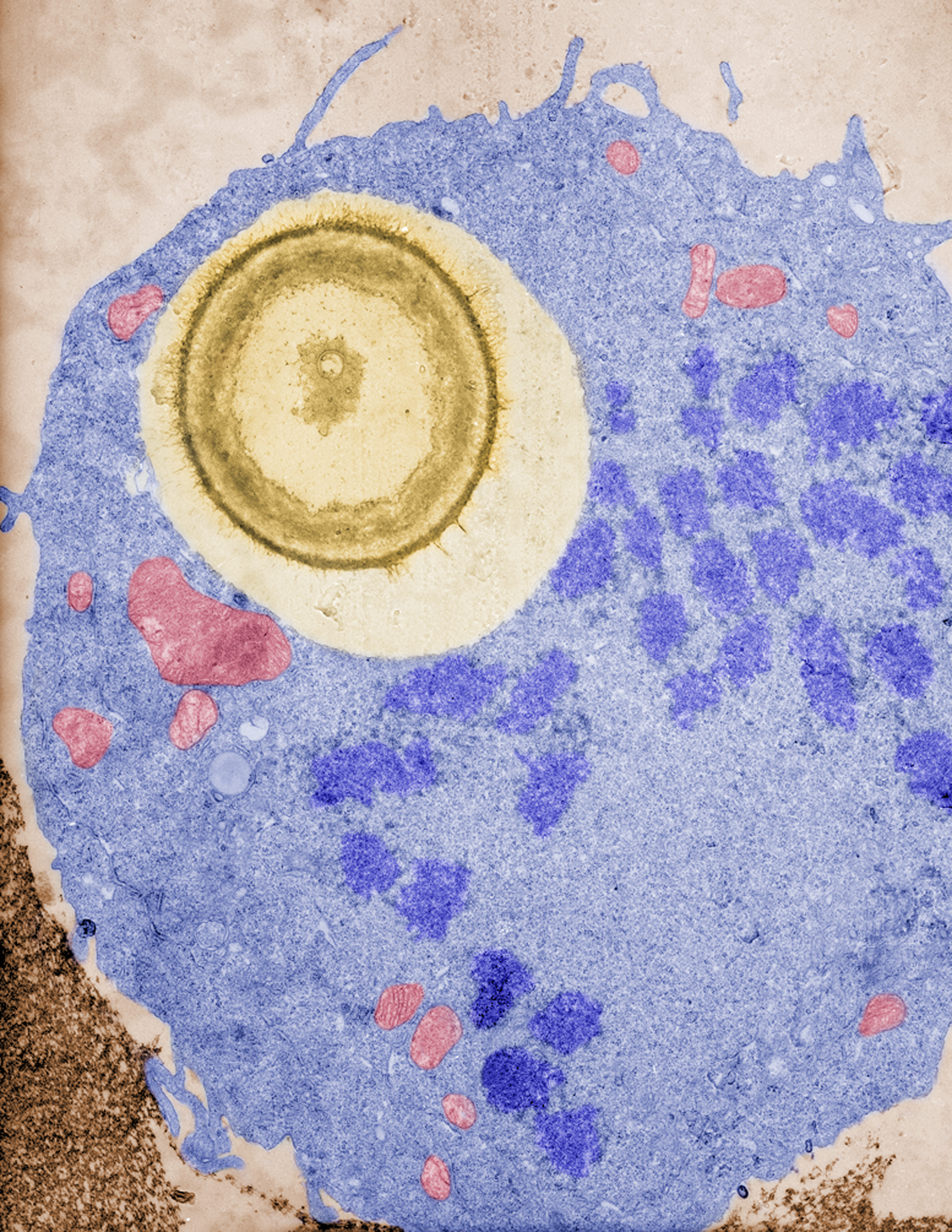 Macrophages(light blue) ingested Cryptococcus neoformans, a fungal pathogen (pale yellow circle). Nevertheless, the macrophage undergoes cell division and you can see condensed chromosomes (dark blue) and absence of the nuclear envelope. In red we highlighted macrophage mitochondria. Sample and transmission electron micrograph by Carolina Coelho, preparation of sample by AIF at Albert Einstein College of Medicine and preparation and coloring of image by Hillary Guzik.